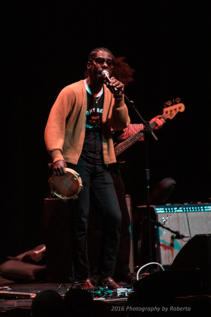 Curtis Harding at the Adler Theater, Davenport, IA for Daytrotter Downs and the Daytrotter 10th Anniversary Celebration 2/18/16